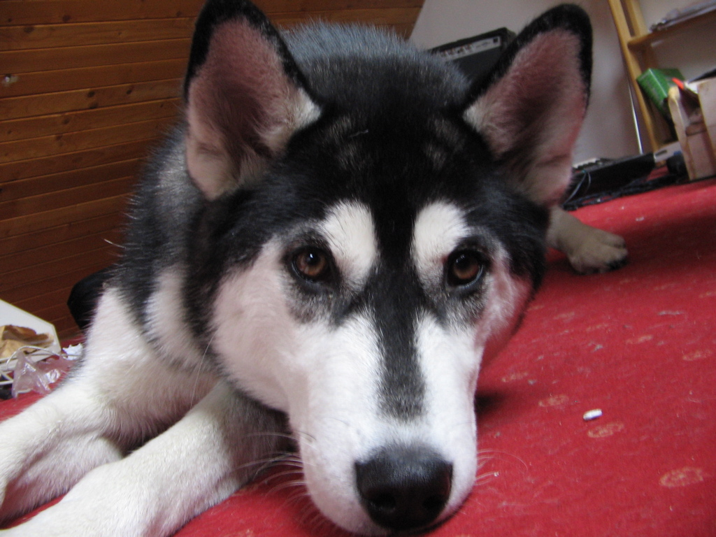 author: grzegorz jaśkiewicz (uploader), source: my private pics lib, public domain, this is my dog: Keira, female siberian husky, as of January 2007